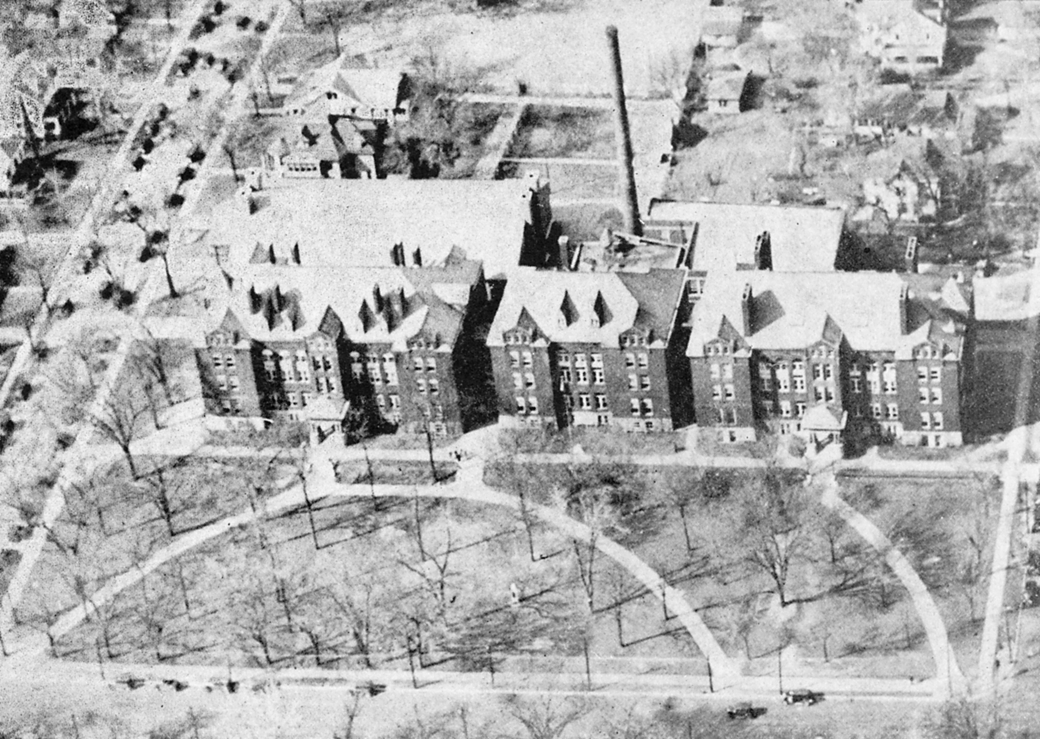 Springfield Central high school viewed from above. Circa 1933